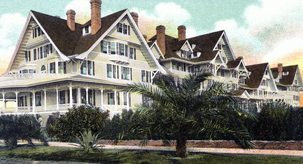 Belleview-Biltmore Hotel, Clearwater, Florida